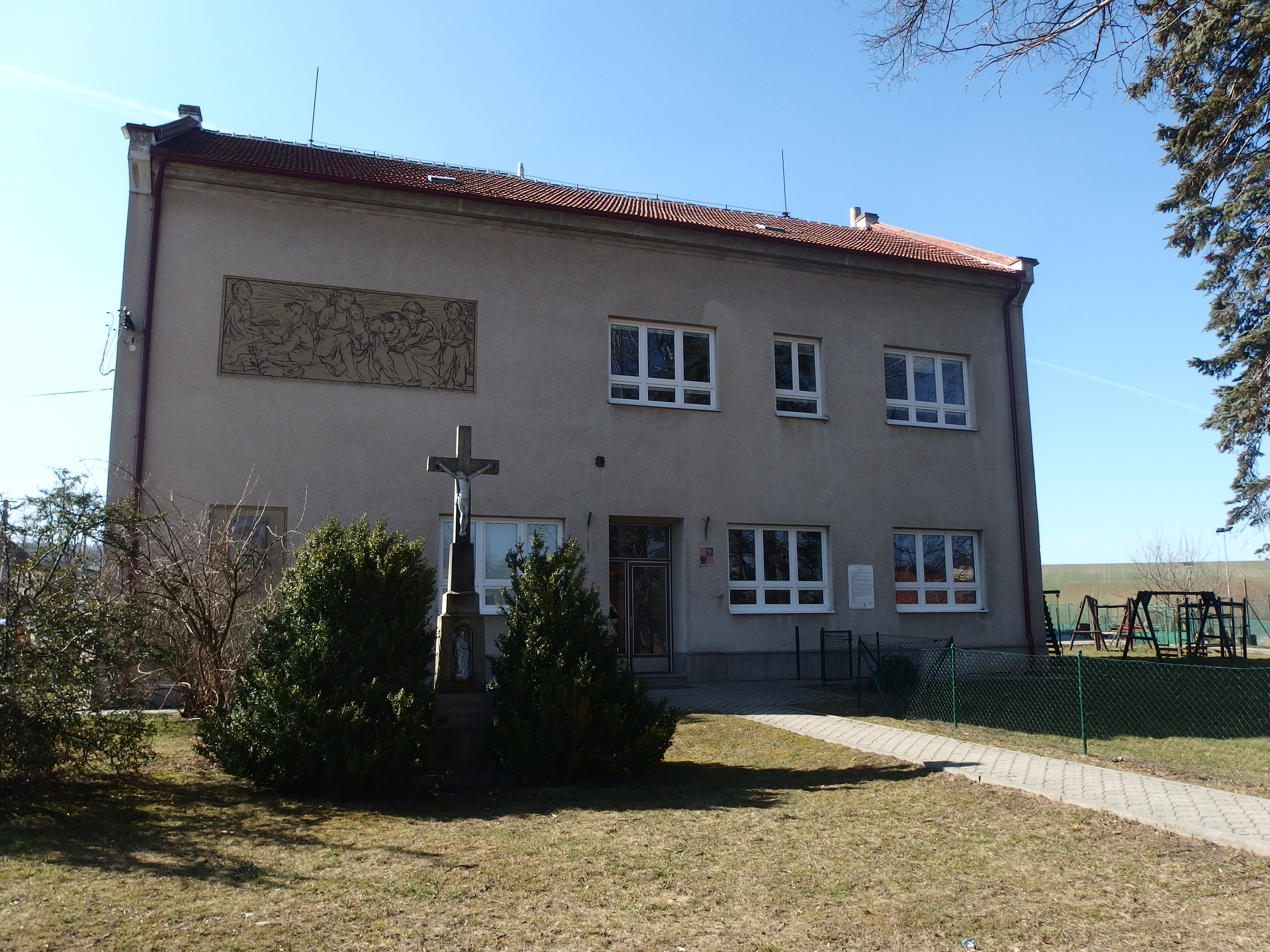 Mouřínov, Vyškov District, Czech Republic.